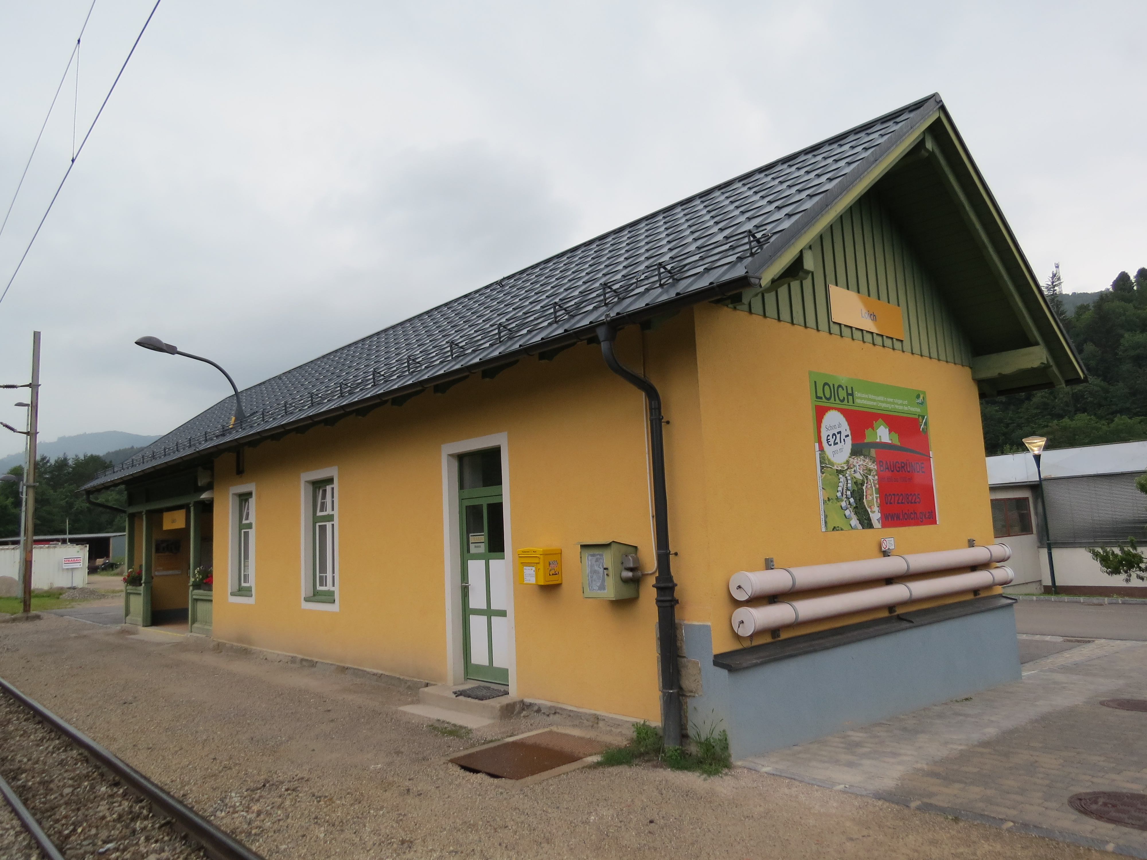 Bahnhof Loich, Austria